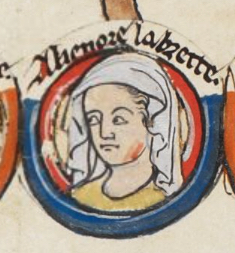 Eleanor, Fair Maid of Brittany